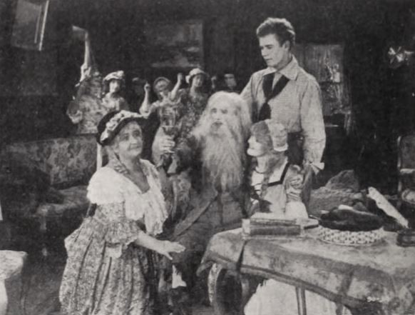 Still from the American fantasy film Rip Van Winkle (1921) with Thomas Jefferson and Daisy Jefferson, on page 84 of the October 15, 1921 Exhibitors Herald.